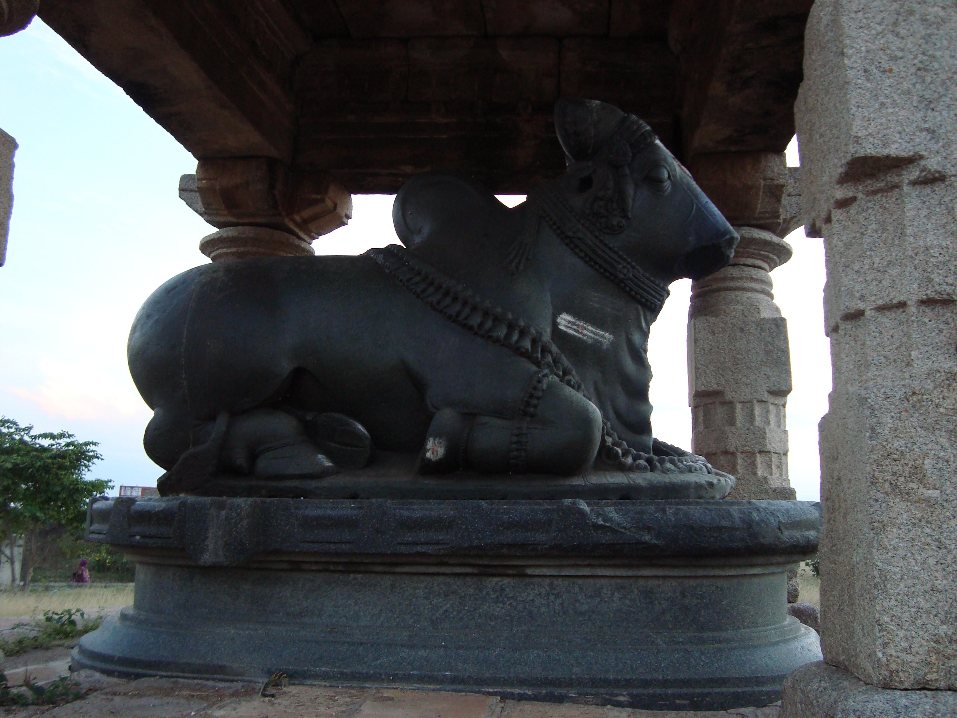 Sudi_Large_Basava_statue Manjujnath Doddamani Gajendragad / Hubli, karnataka(North), India